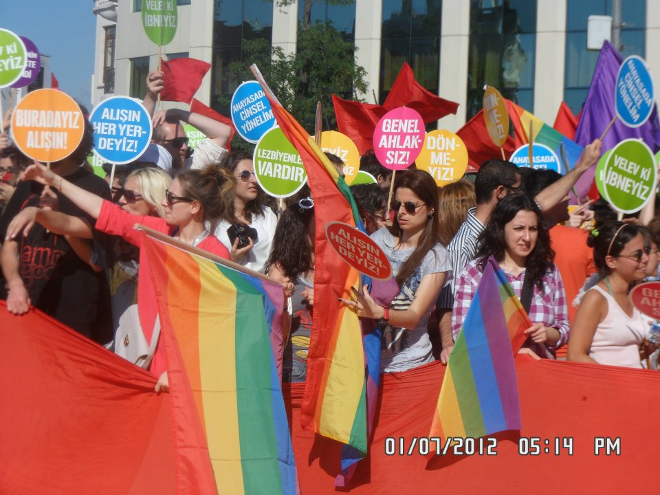 2012 Gay Pride Parade, Istanbul.